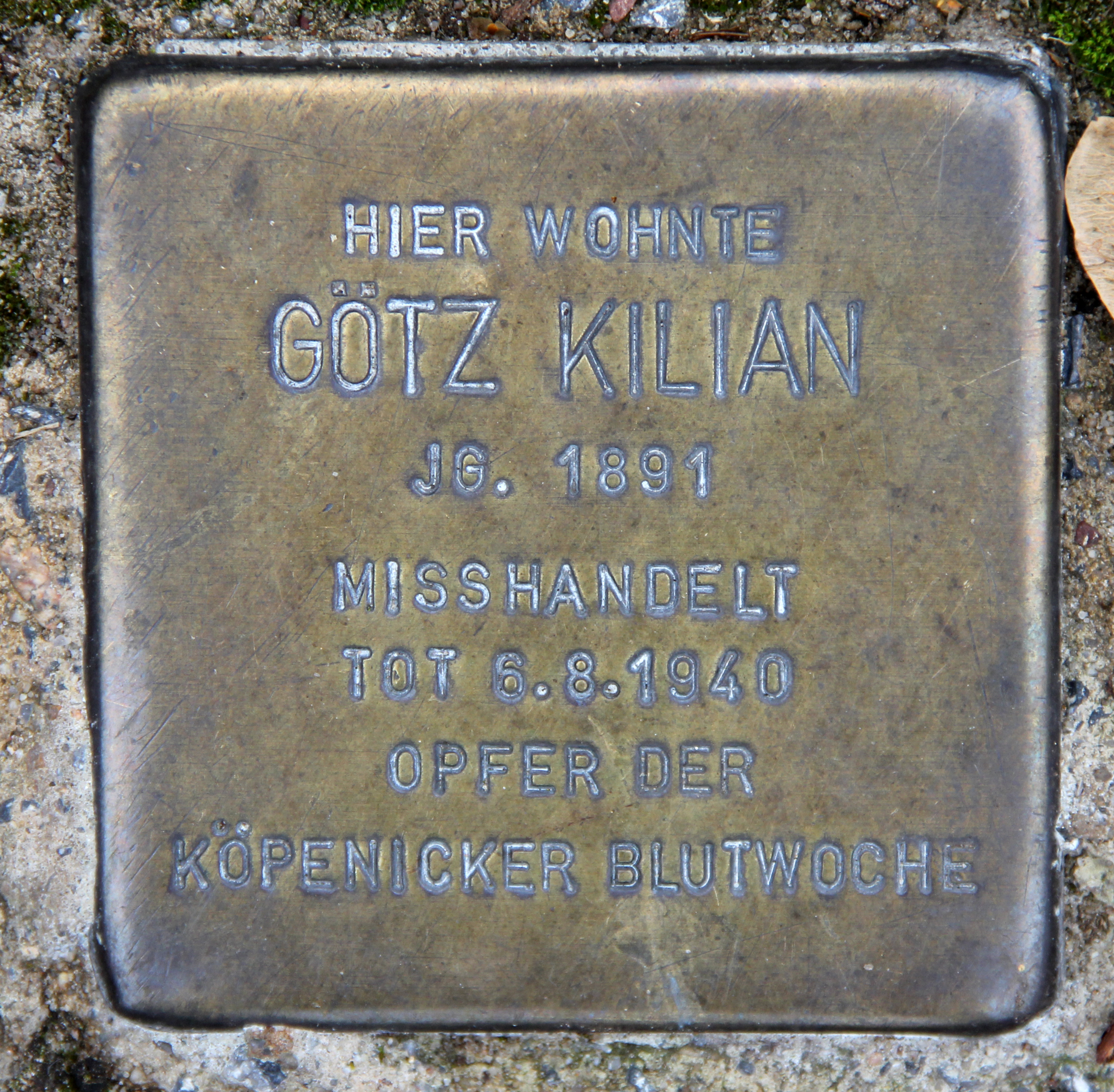 "Stolperstein" (stumbling block), Götz Kilian, Heidekrugstraße 67, Berlin-Köpenick, Germany